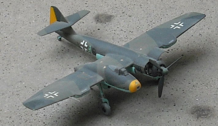 Model photo of a Blohm & Voss BV P.194.02